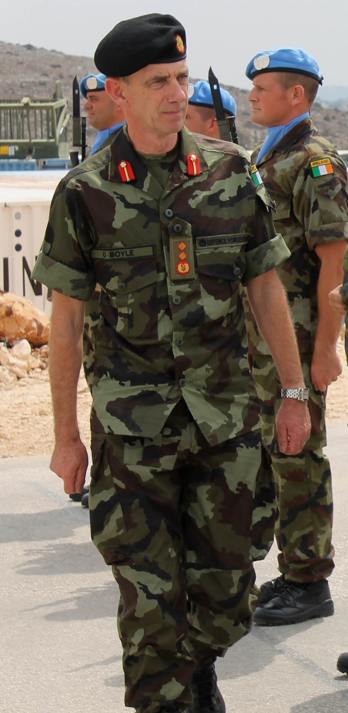 Lieutenant General Conor O"Boyle inspects an IrishFinn Honour guard on his arrival in the IRISHFINN Batt HQ UNFIL.